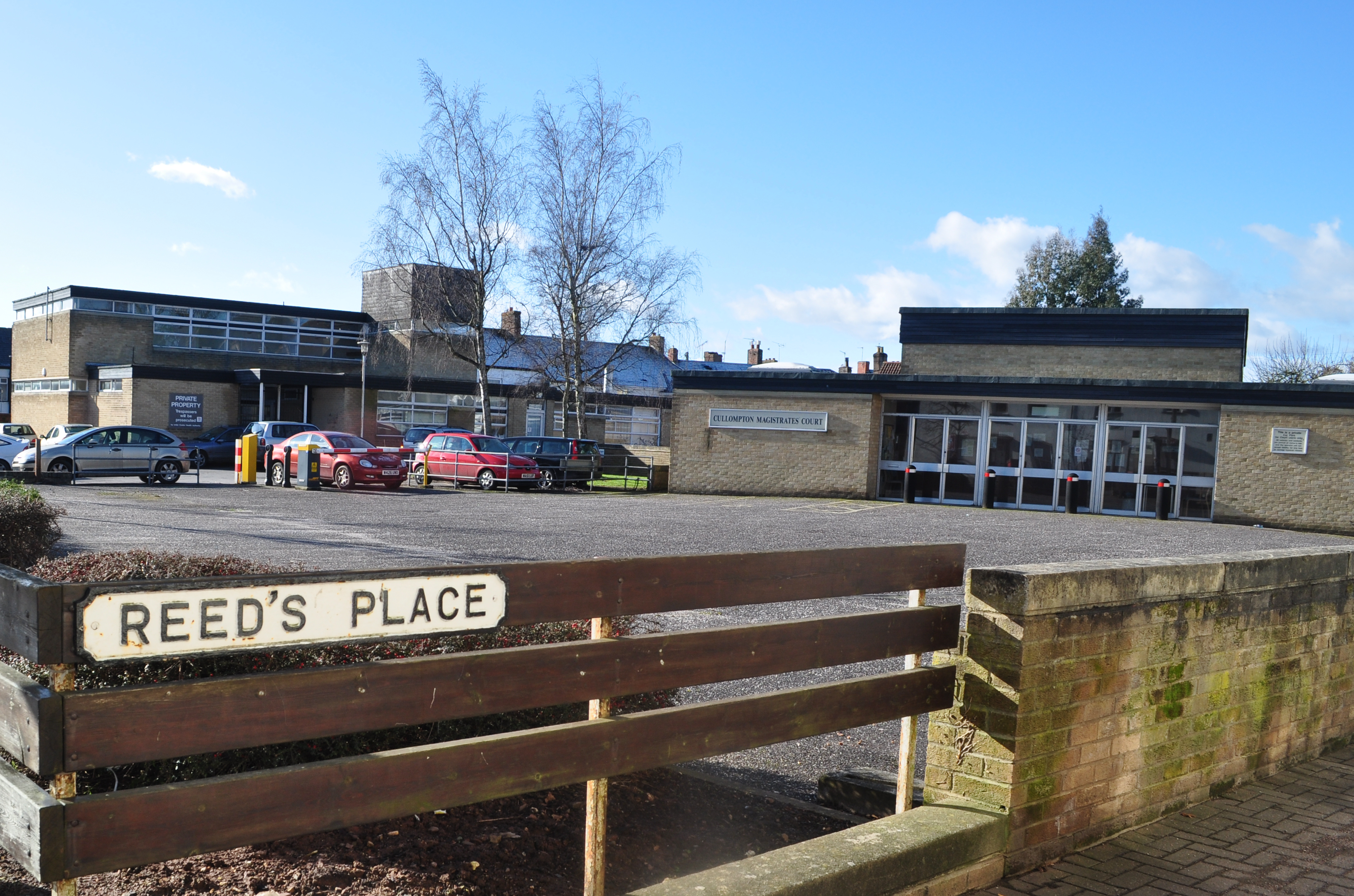 This is a view of the former health centre in Cullompton (now demolished and replaced with the new library) and the disused magistrates court (now demolished and used as the site of a car park)